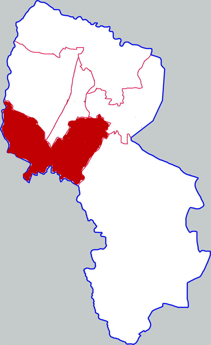 Location of Yongning county in Yinchuan city, China